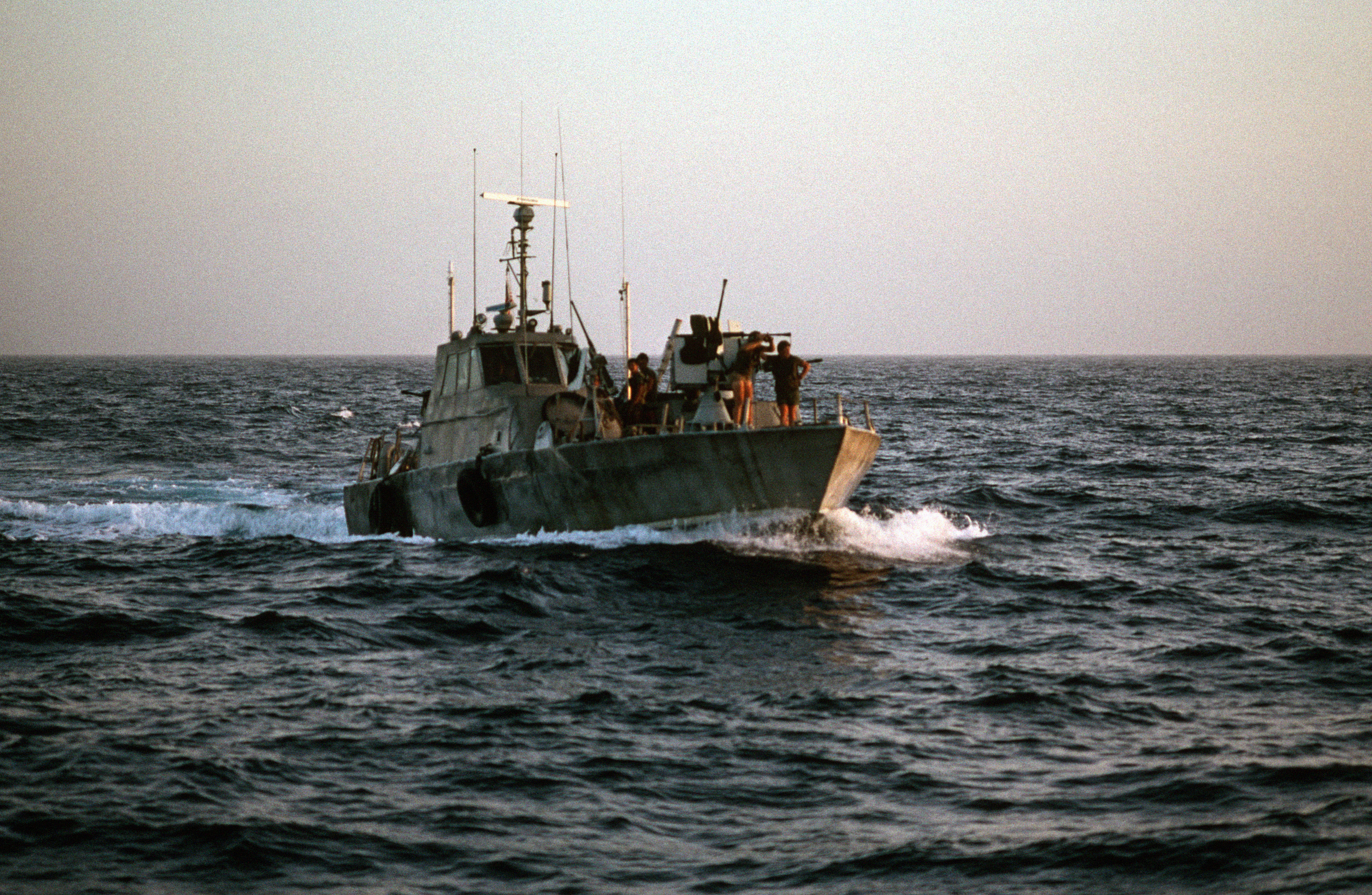 DN-ST-88-09832 - A PB Mark III patrol boat from Special Boat Unit 11 returns to the barge HERCULES after an all-night patrol. The 65-foot aluminum patrol boats work in pairs to monitor small boat activity in the Persian Gulf.